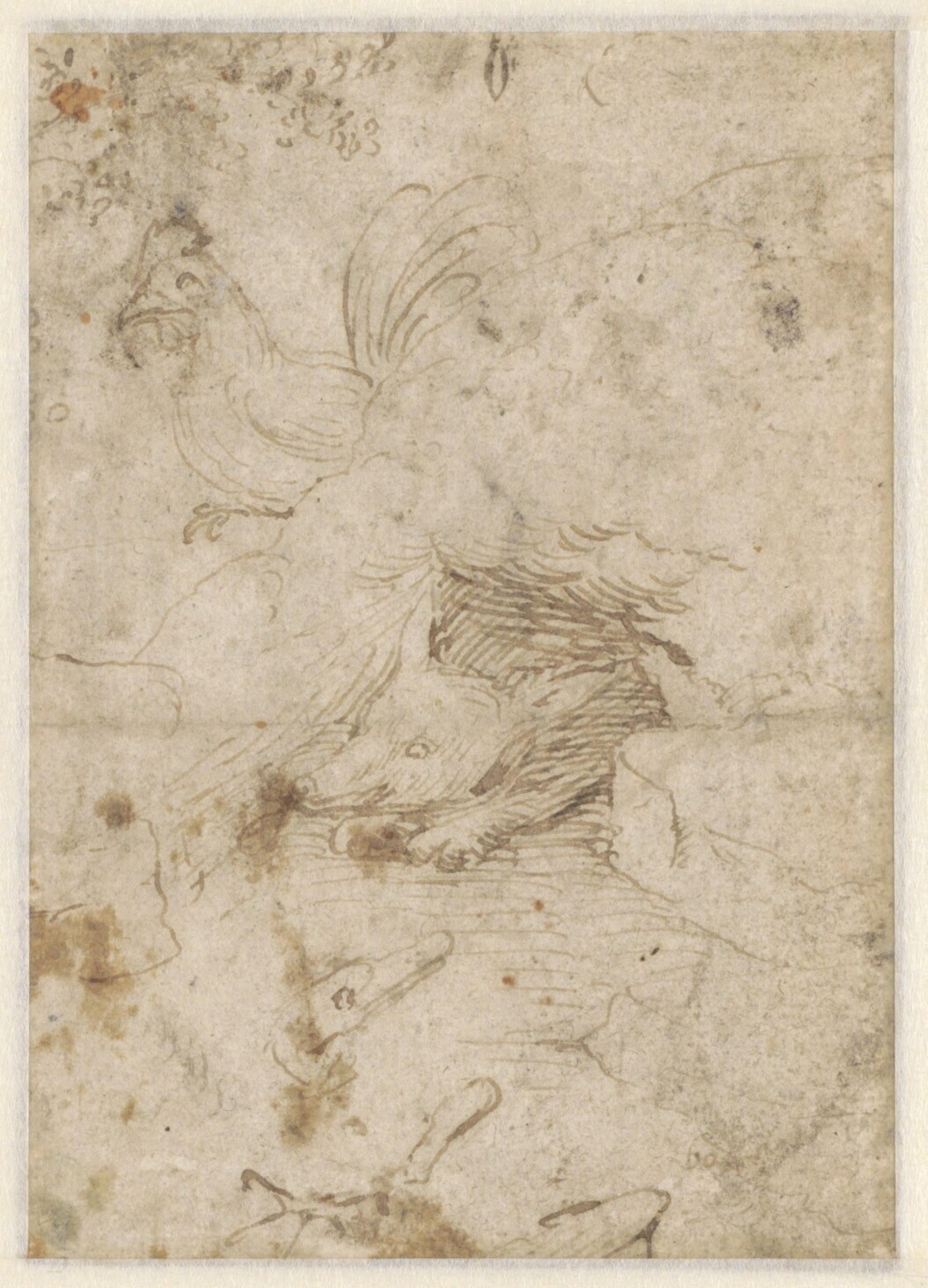 Reverse of a two-sided drawing. For the front, see File:A Woman Spinning and an Old Woman by Jheronimus Bosch 01.jpg.